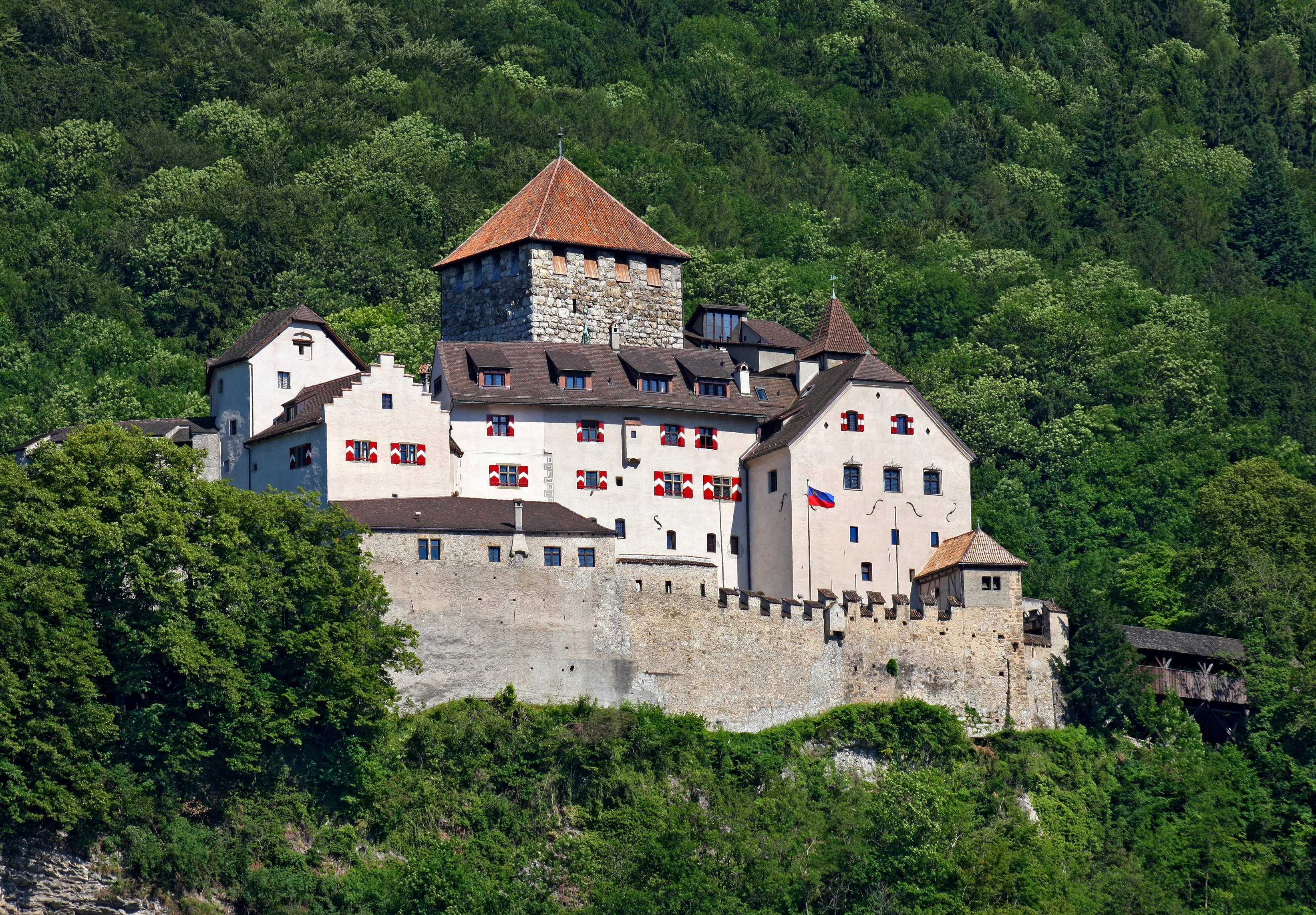 Castle Vaduz; Principality of Liechtenstein